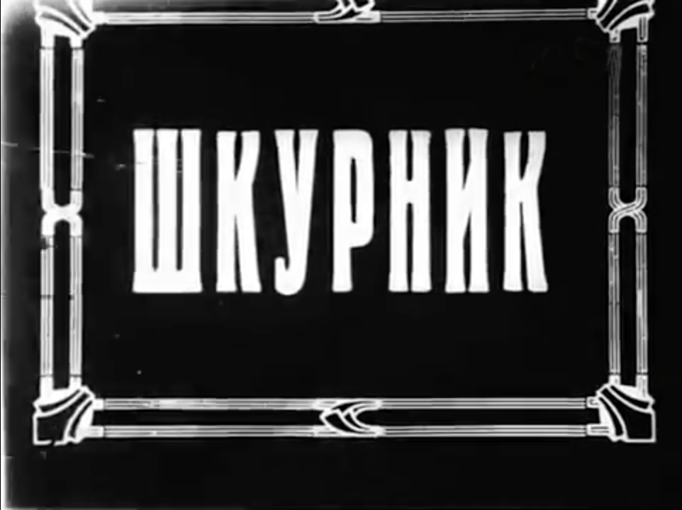 Screen shot of title sequence for 1928 Ukrainian silent film "Shkurnyk" (Self-server).